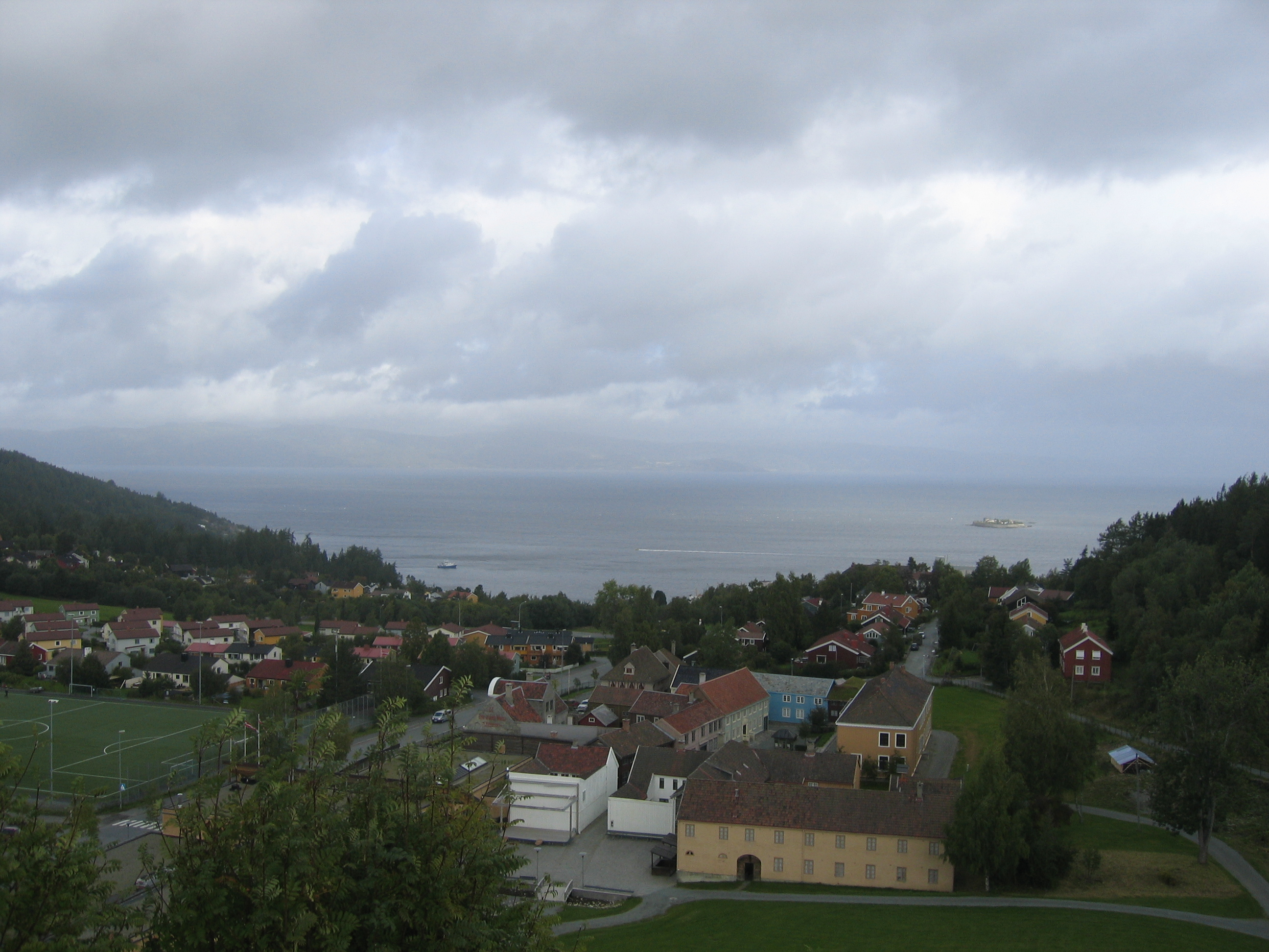 View over Sverresborg in Trondheim, Sør-Trøndelag, Norway.